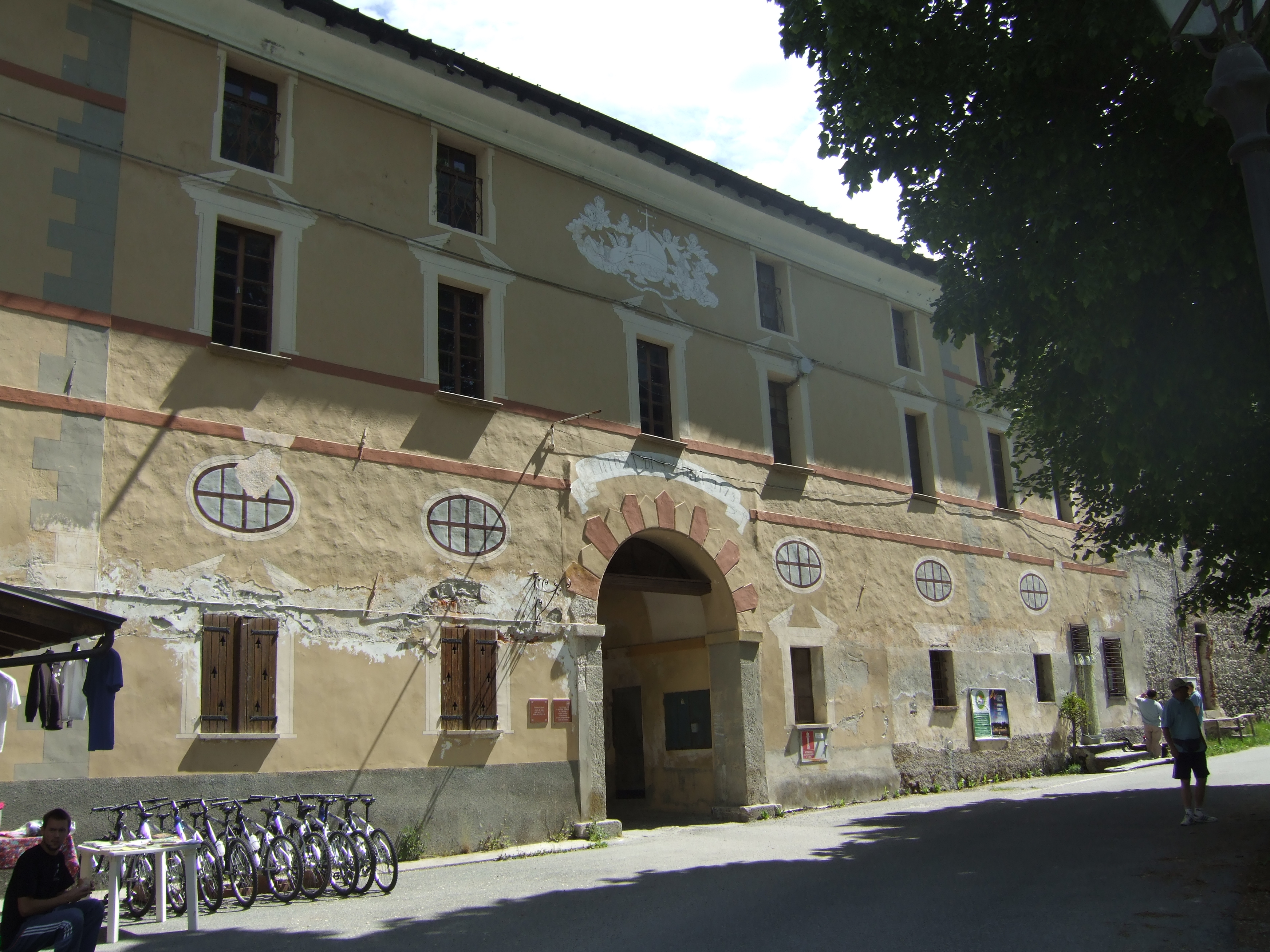 Chartreuse of Pesio Province of Cuneo - Italy - Main entrance